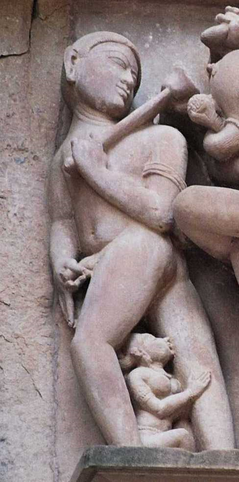 Male masturbation in Khajuraho Temple, India Templo de Khajuraho, India